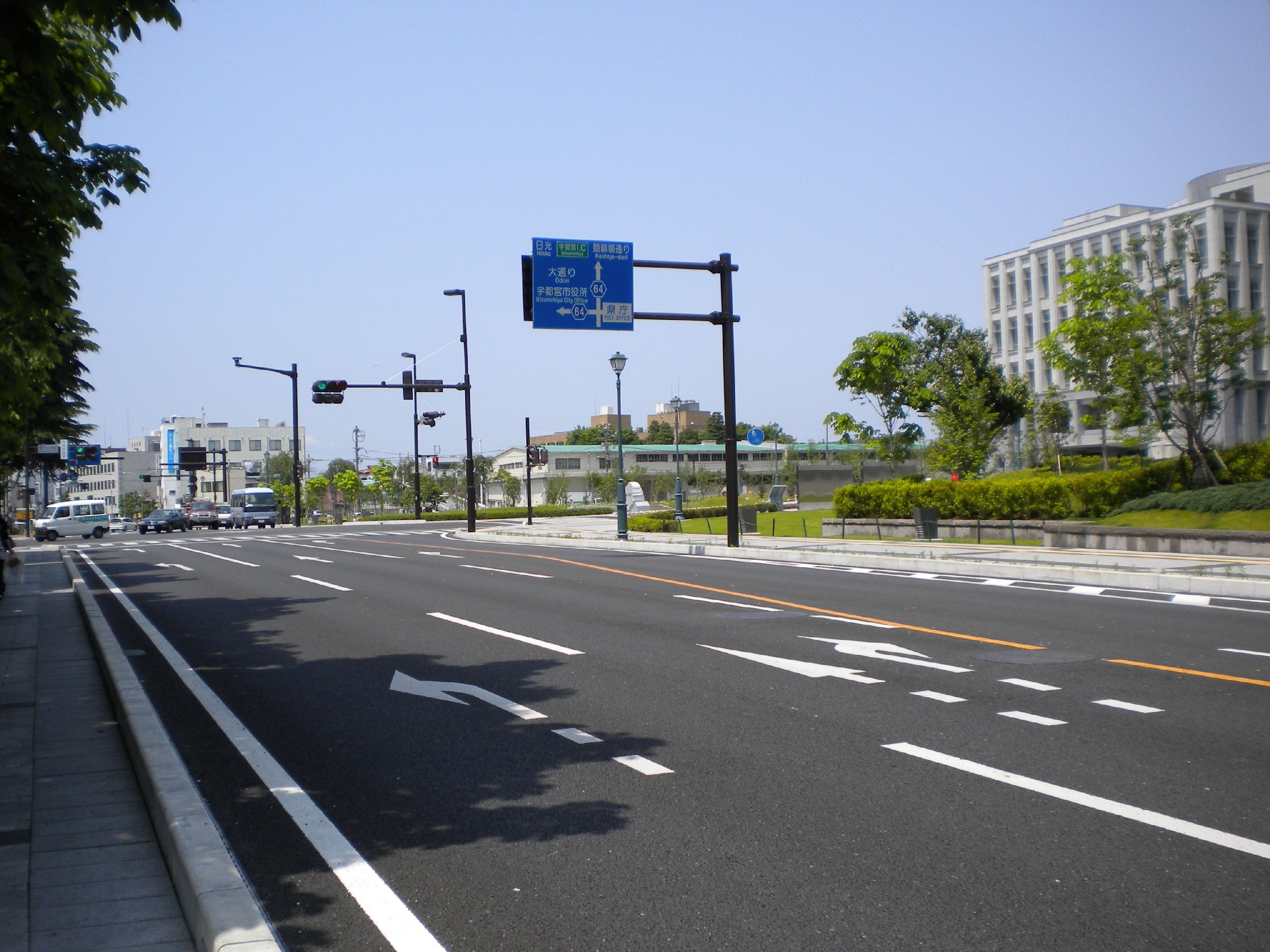 The Tochigi Prefectural Road Route 64 in Hanawada 1-chome, Utsunomiya City